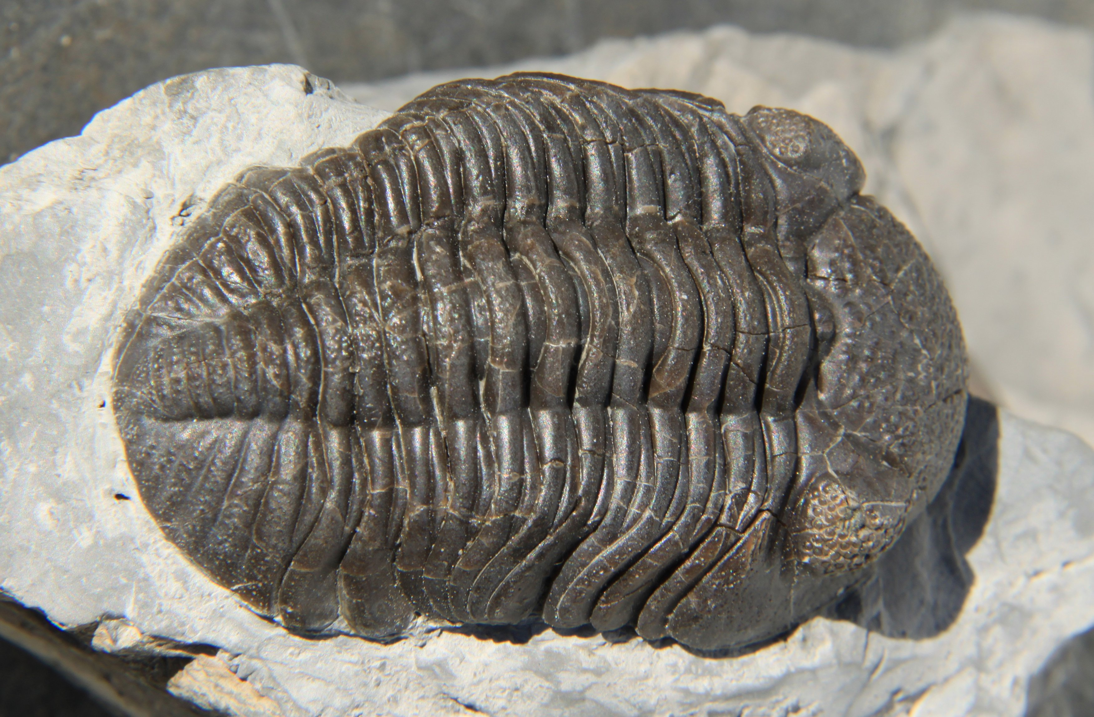 A Phacops rana crassituberculata trilobite, Order Phacopida, Family Phacopidae, 51mm along the axis, dorsal view, collected from the Silica Shale, near Sylvania Ohio, USA, from the Middle Devonian (Givetian)